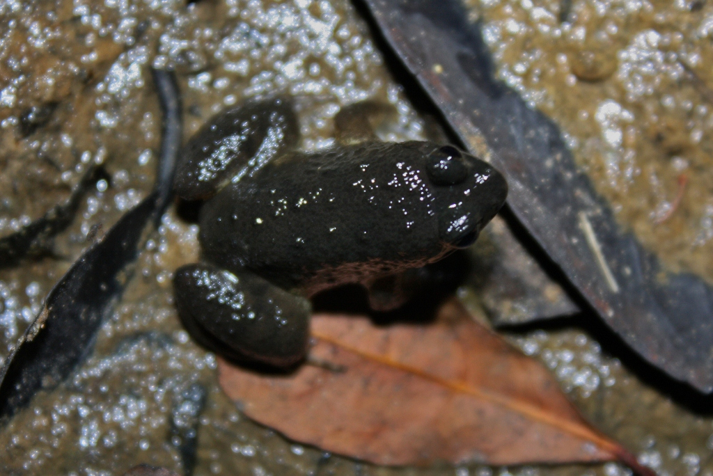 Found in marshland in Sa Kaeo, Thailand. There was a lot of colour variation in one small patch of the marsh, but O. martensii seemed the best identification fit.